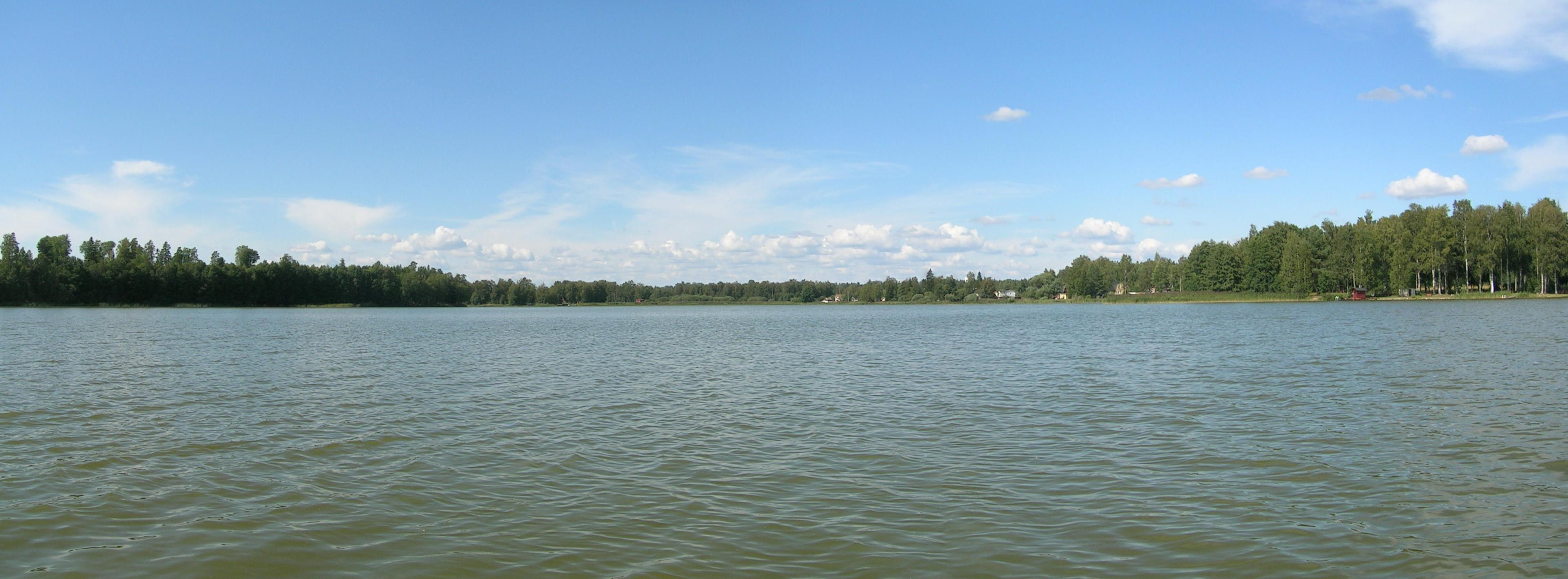 Panorma Ramsjön, Morgongåva, Heby kommun, Sweden